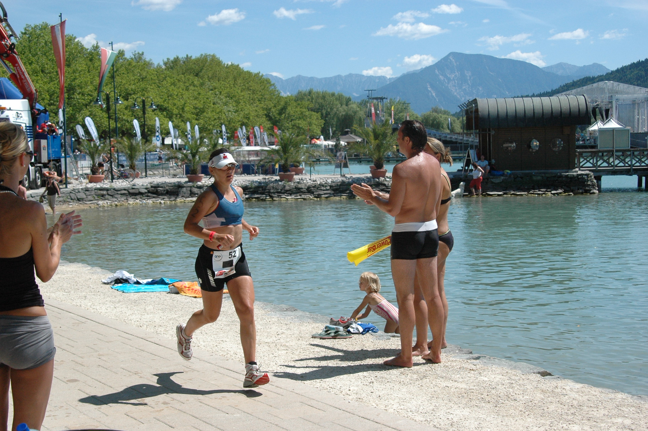 Australian Pro-Triathlete Rebecca Preston at Ironman Austria in Klagenfurt, July 16 2006